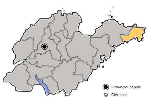 The prefecture-level city of Weihai is highlighted on this map of Shandong province, People's Republic of China.